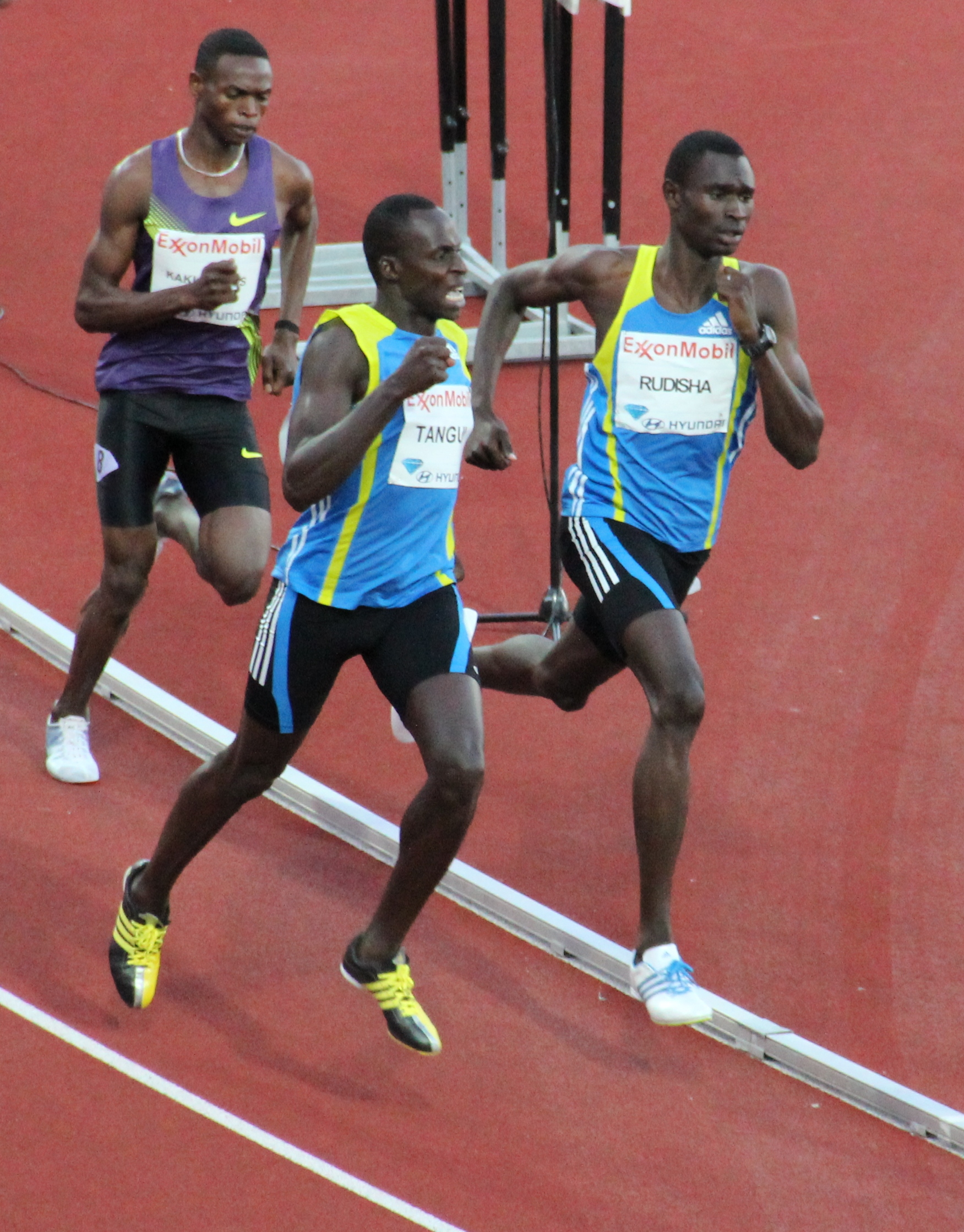 800 metres at 2010 Bislett Games. Rudisha won at 1.42.04 ahead of Kaki Khamis at the fastest not winning time ever, 1.42.23. "Rabbit" Tangui, dropps out at 450 metres